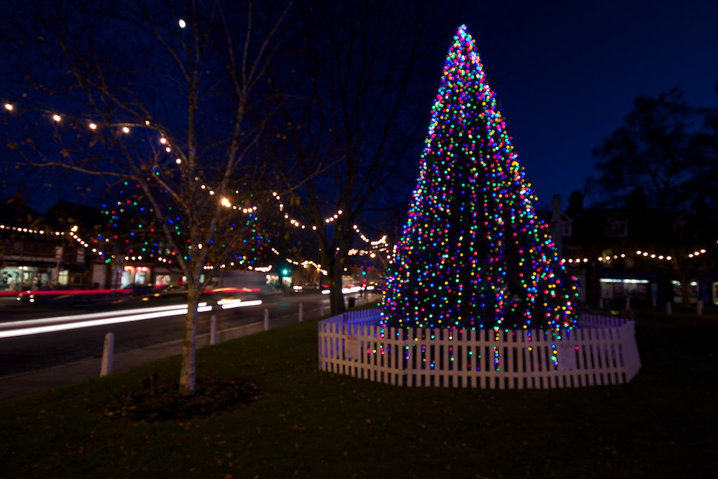 XMAS Lights